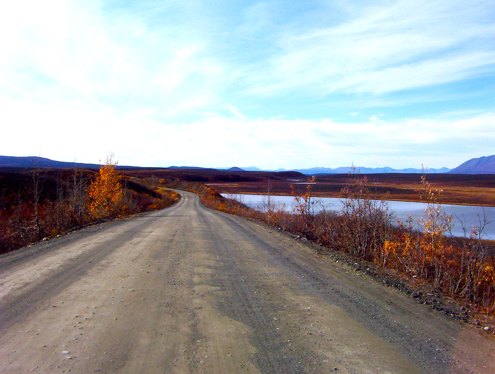 Portion of the Denali Highway built directly on a glacial esker.